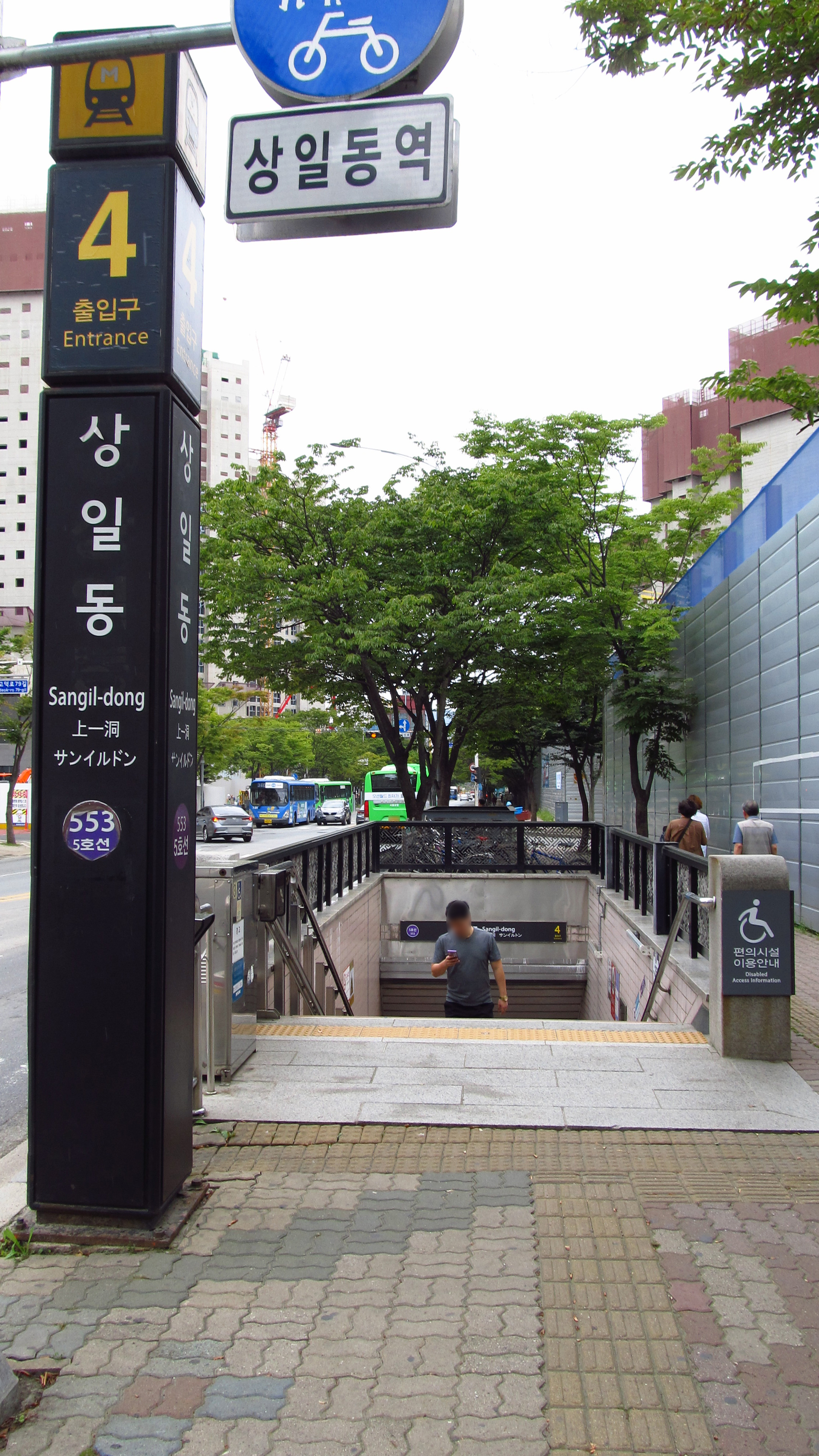 The no.4 entrance to Sangil-dong Station on the Seoul Metro Line 5 in Gangdong-gu, Seoul, Republic of Korea(South Korea)